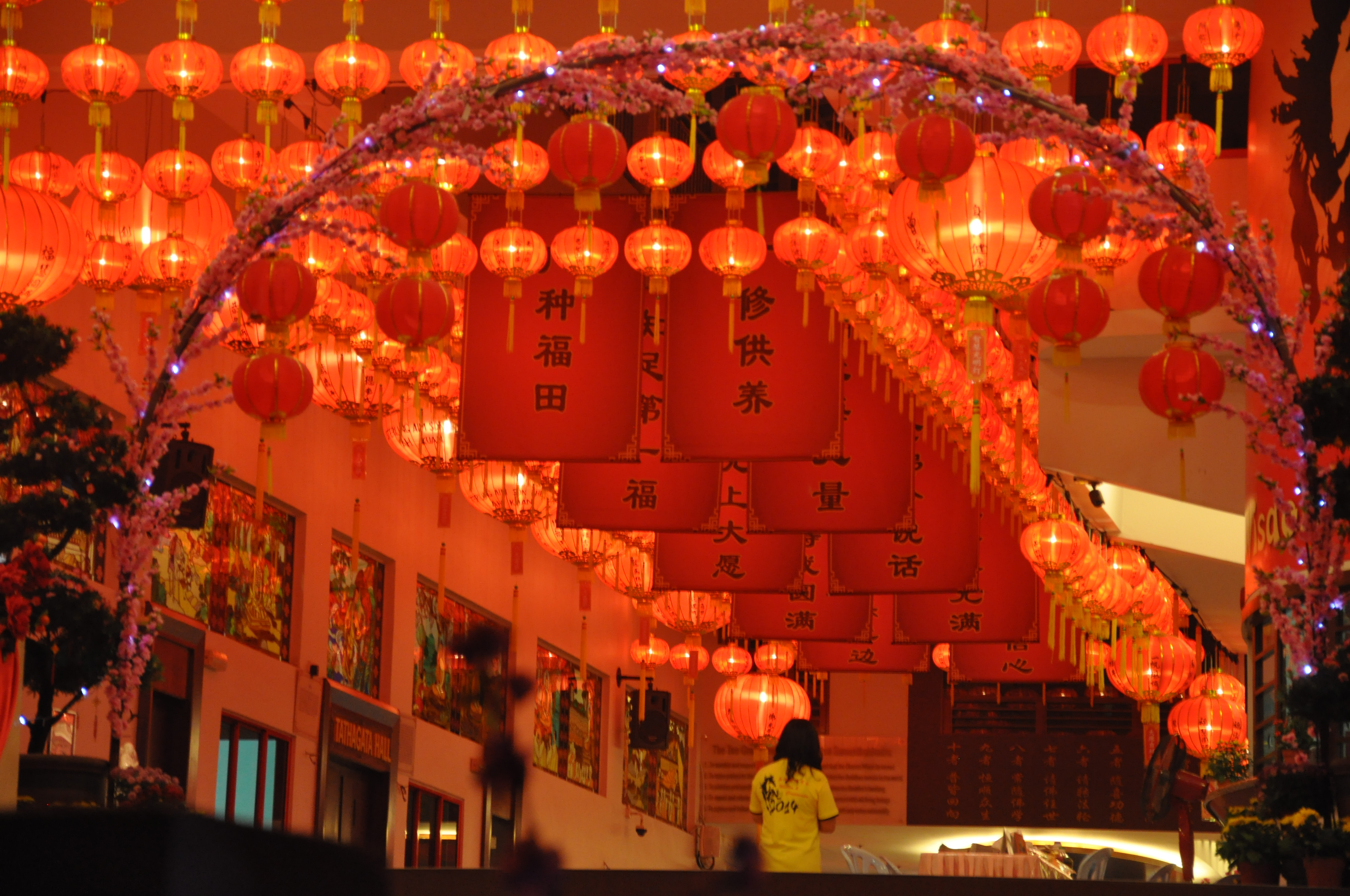 Shah Alam Buddhist Society at nightfall during the 2014 Chinese New Year celebrations.